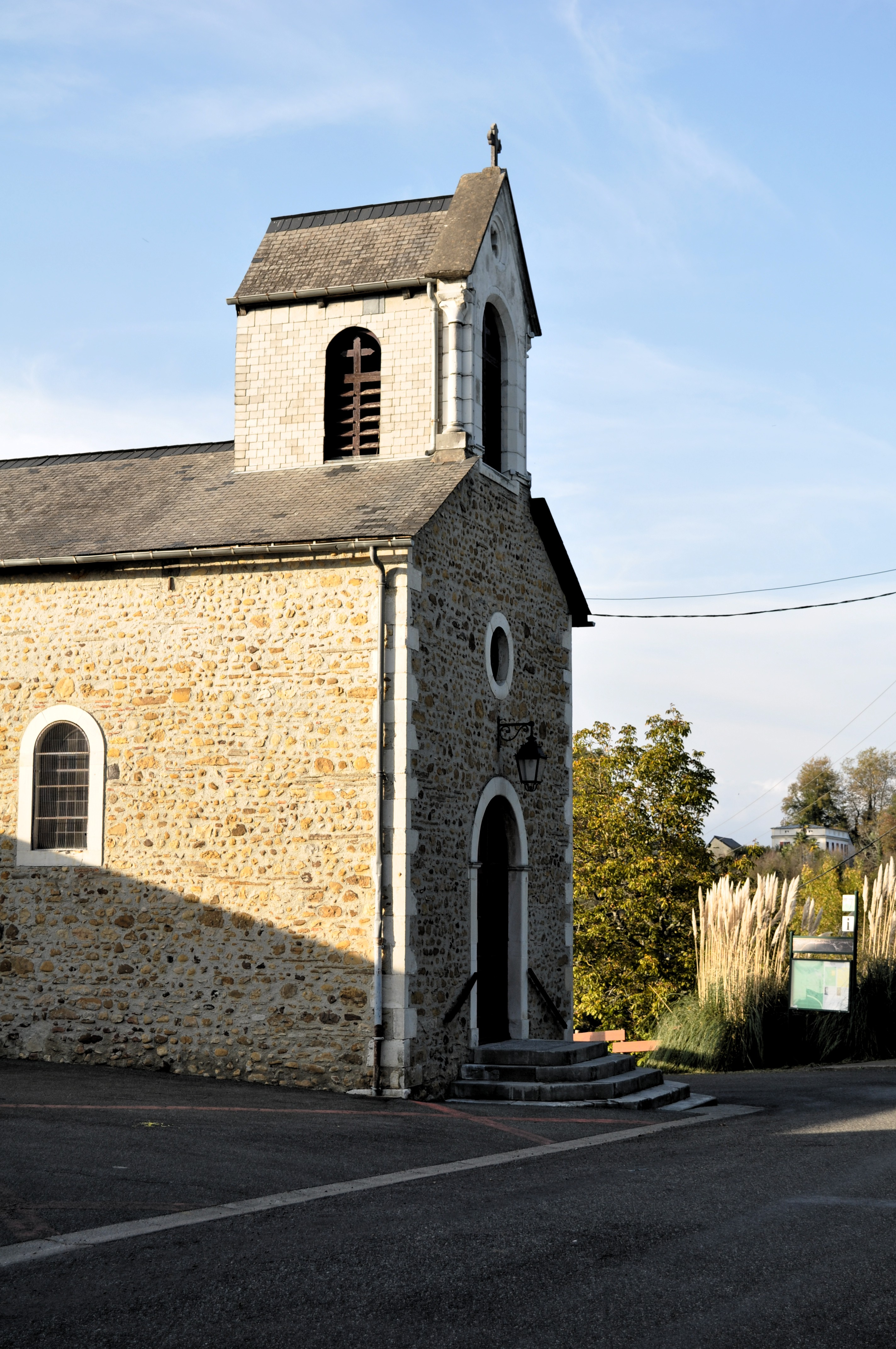 Chapelle de Rousse (Jurançon, 64, France)